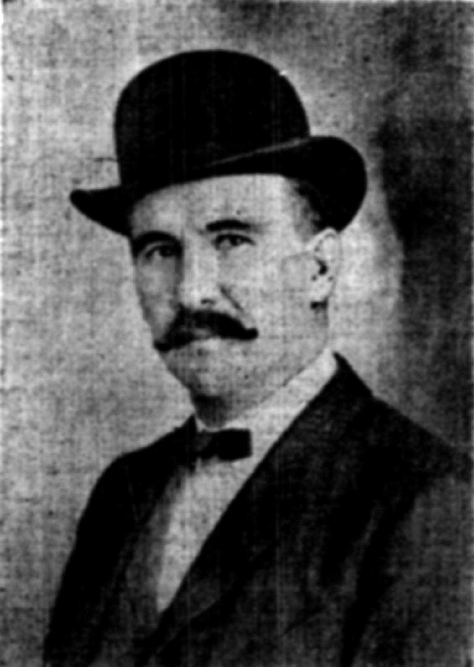 Stephen A. Douglas Puter who was convicted of land fraud land later mail fraud, circa 1906.